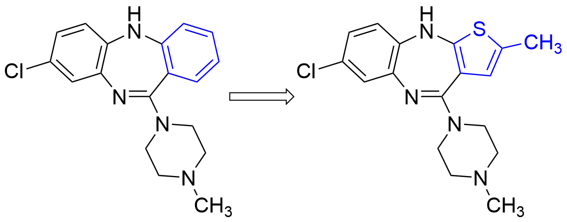 A phenyl for methylthiophene bioisosteric replacement